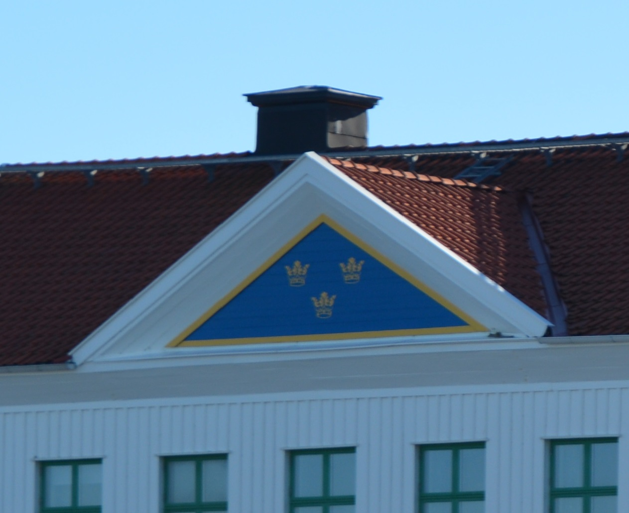 Tympanon at an 19th Century Director's Building at Känsö outside Göteborg, Sweden